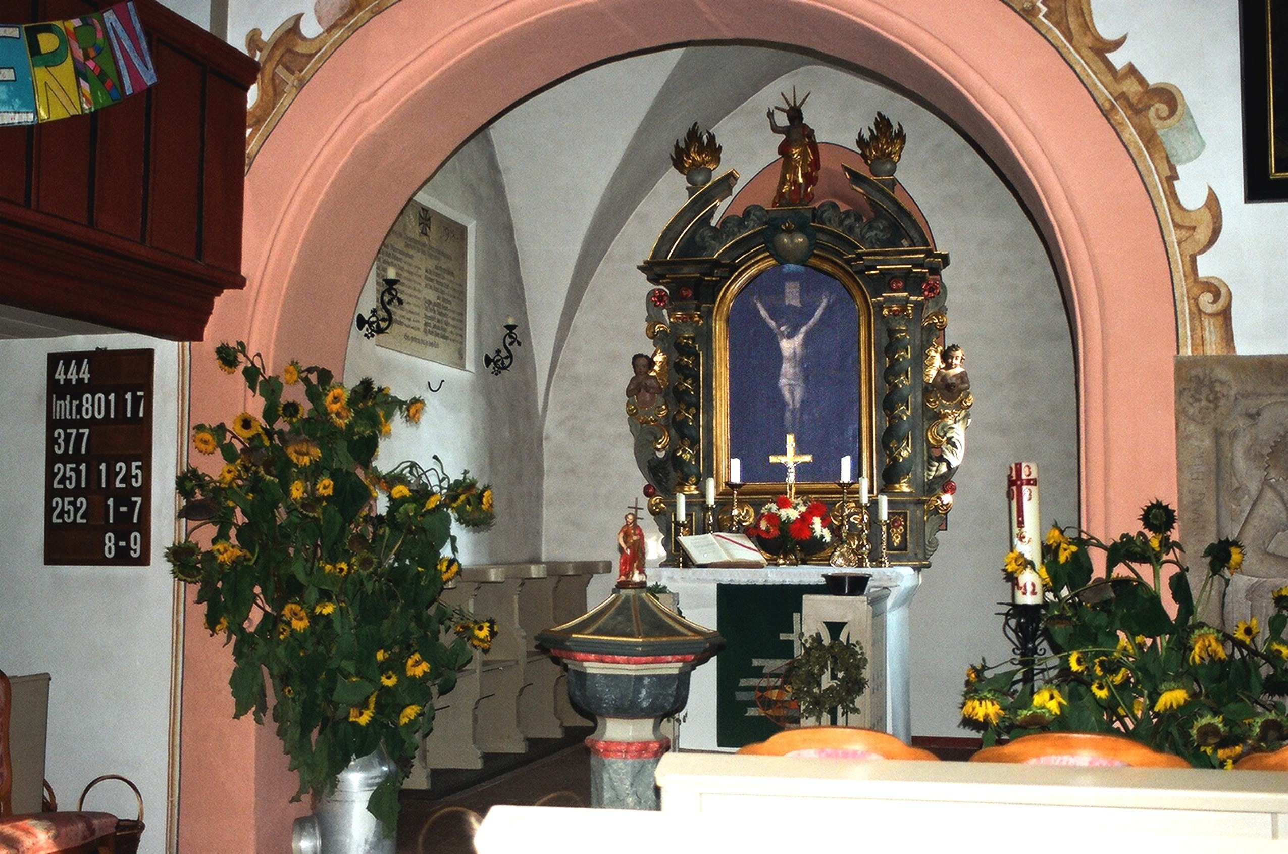 Dürrenmungenau (Abenberg), church St.James, inner view